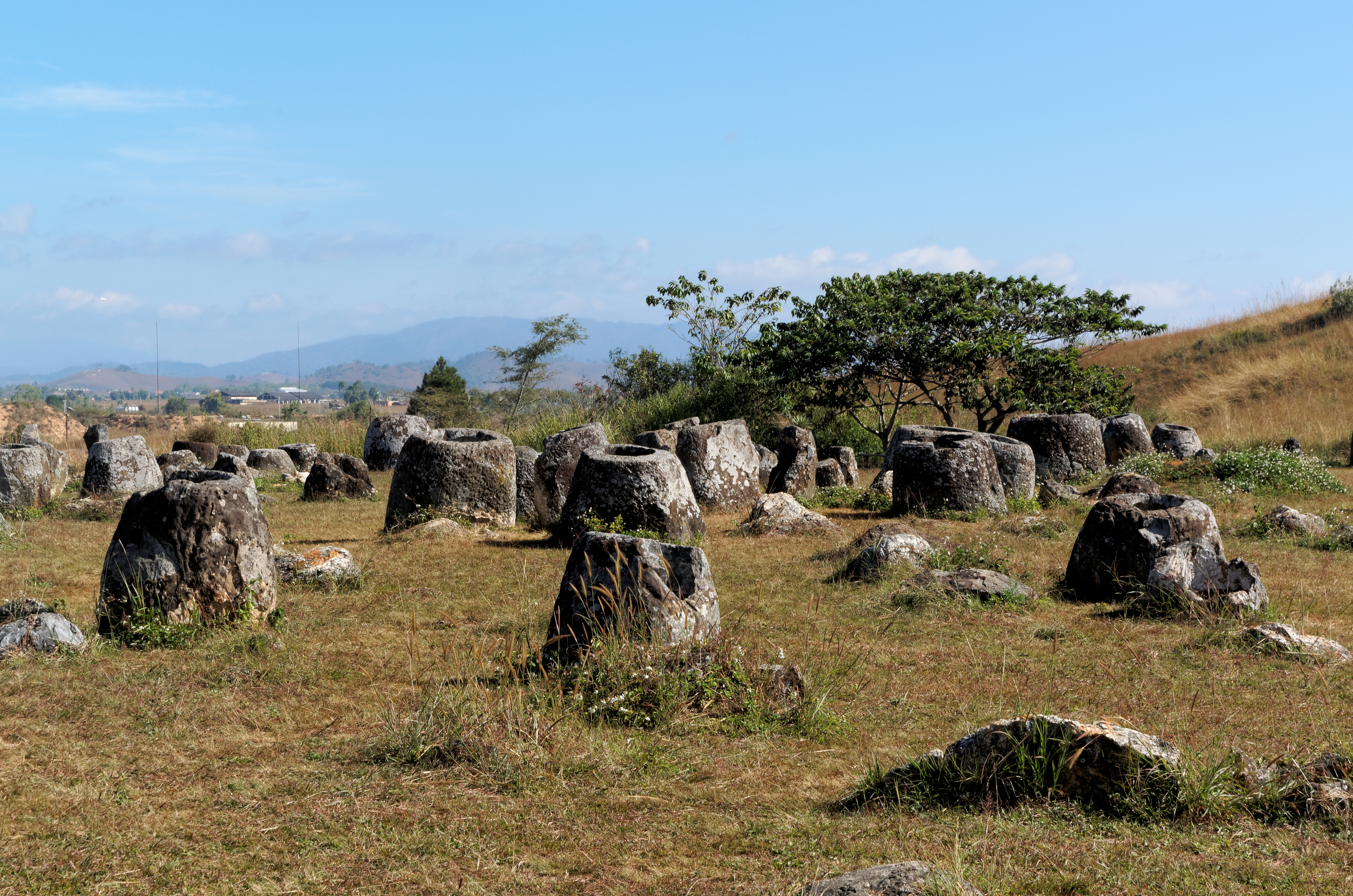 Plain of Jars - archaeological site number 1